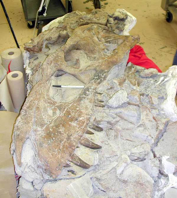 Picture of a Bistahieversor skull found in New Mexico, still in preparation.